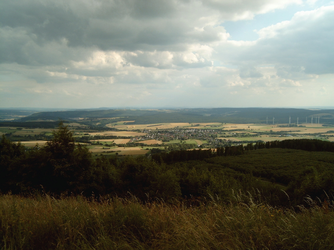 "Köterberg", view from peak to south